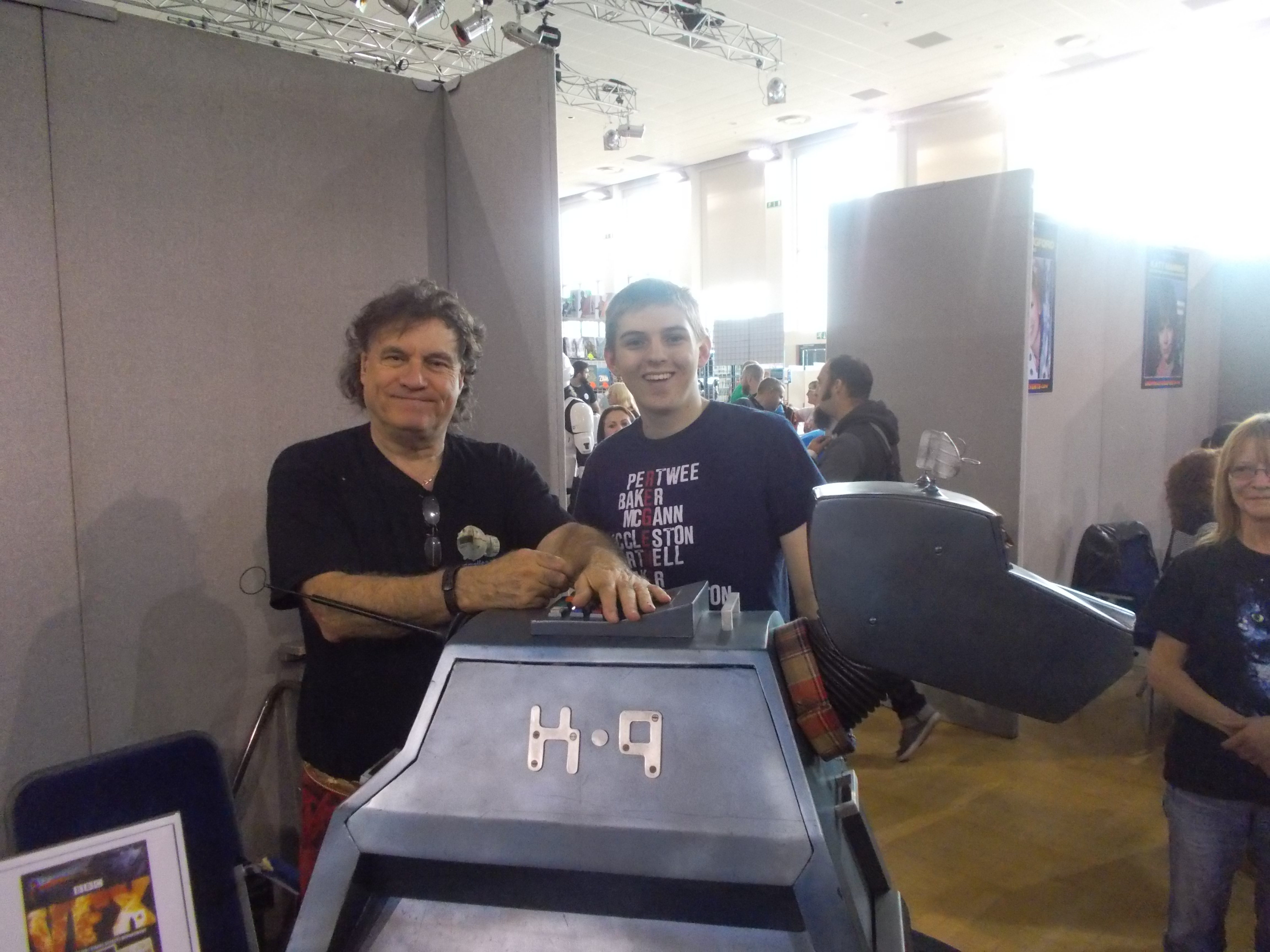 Mat Irvine with a fan in 2015